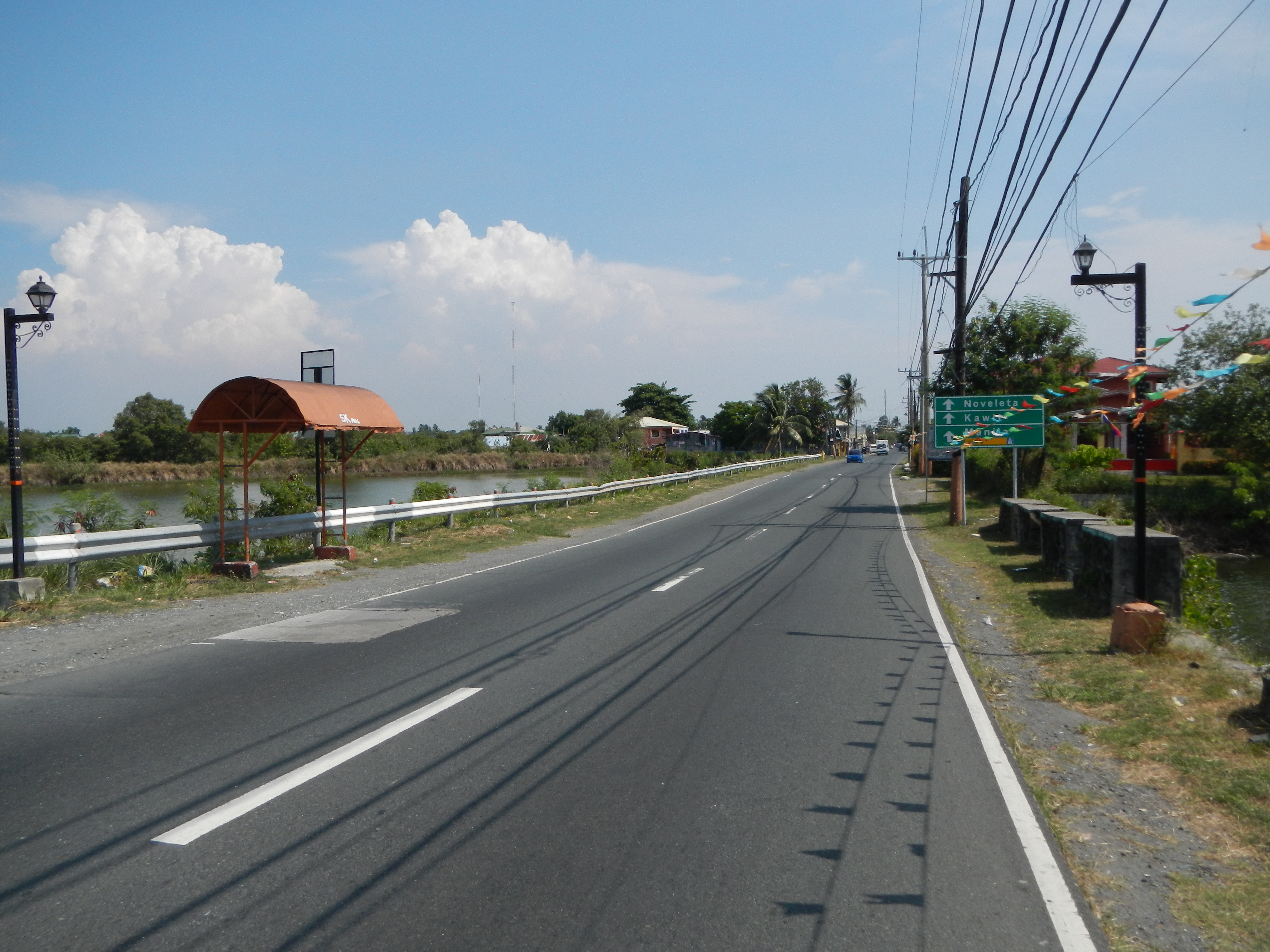 Battle of Noveleta[1] --- "Labanan sa Kallero" -- Calero (Soriano) Bridge, San Rafael IV, Noveleta, Cavite[2] - November 10, 1896 - was a major battle during the Philippine revolution and was one of the very first engagements of the revolution in Cavite. In the latter part of the revolution, Noveleta played a key role for the Magdalo[3] and Magdiwang factions. From its capture by the Magdiwang at the start of the revolution, various battles were fought and won by Filipino rebels in Cavite. Noveleta became the seat of the Magdiwang faction of the Katipunan.[4] The Battle of Calero Marker commemorates the battle at the bridge where 400 Spaniards were killed by Filipino heroes.[5] The Calero Bridge on the other hand was also a battle ground during the Philippine Revolution where the bravery of Filipinos prevailed over Spanish forces. Noveleta is home to a lot of revolutionary generals and a memorial marker for all of them is yet to be constructed by the local government. ---------[N.B. Photography of Noveleta, Cavite and Rosario, Cavite[6]: 30% cloudy and 70% sunny weather using my Nikon AW 100 waterproof shockproof camera. From Bulacan at 9:35 a.m., I took photo of the Baliuag Transit Original station, and at 11:38 a.m., the 5th Avenue LRT Station[7]; then I arrived at Rosario, Cavite and captured Noveleta Battle bridge at 2:08 pm, and then the Salinas Town or Rosario, Cavite at 2:33 pm and finished photography at 7:04 pm, and arrived at Bulacan at 11:30 pm after 4+ hours of travel by bus, and started uploading via slow internet at 11:40 pm - I hereby certify that these raw, original and unedited photos are exclusive for Commons and Wikipedia never uploaded in any Internet or any site, and for the public domain without any condition.]